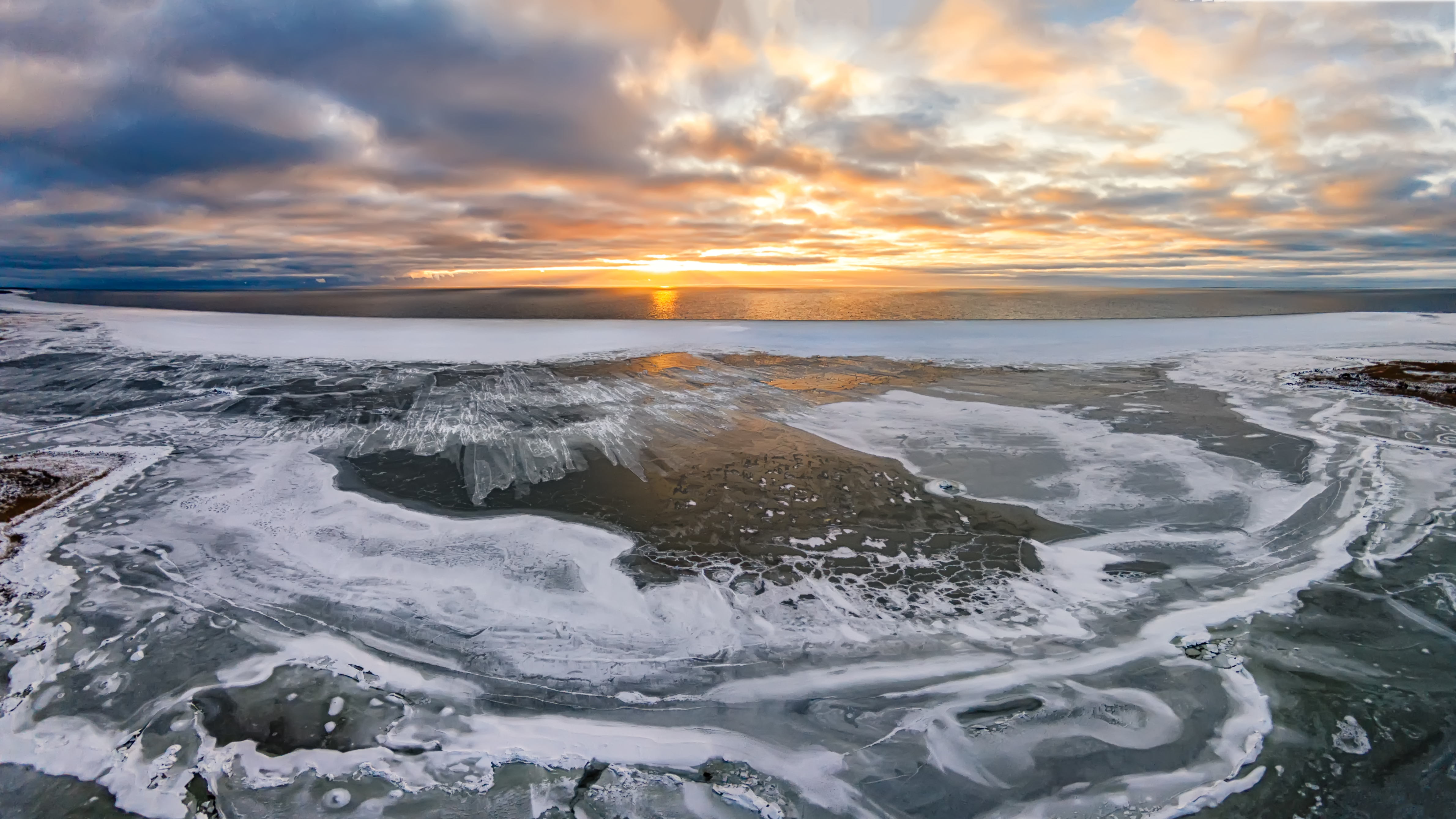 Sunset in Varbla beach. Estonia.